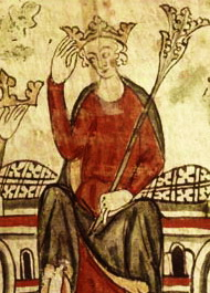 King Edward II of England.